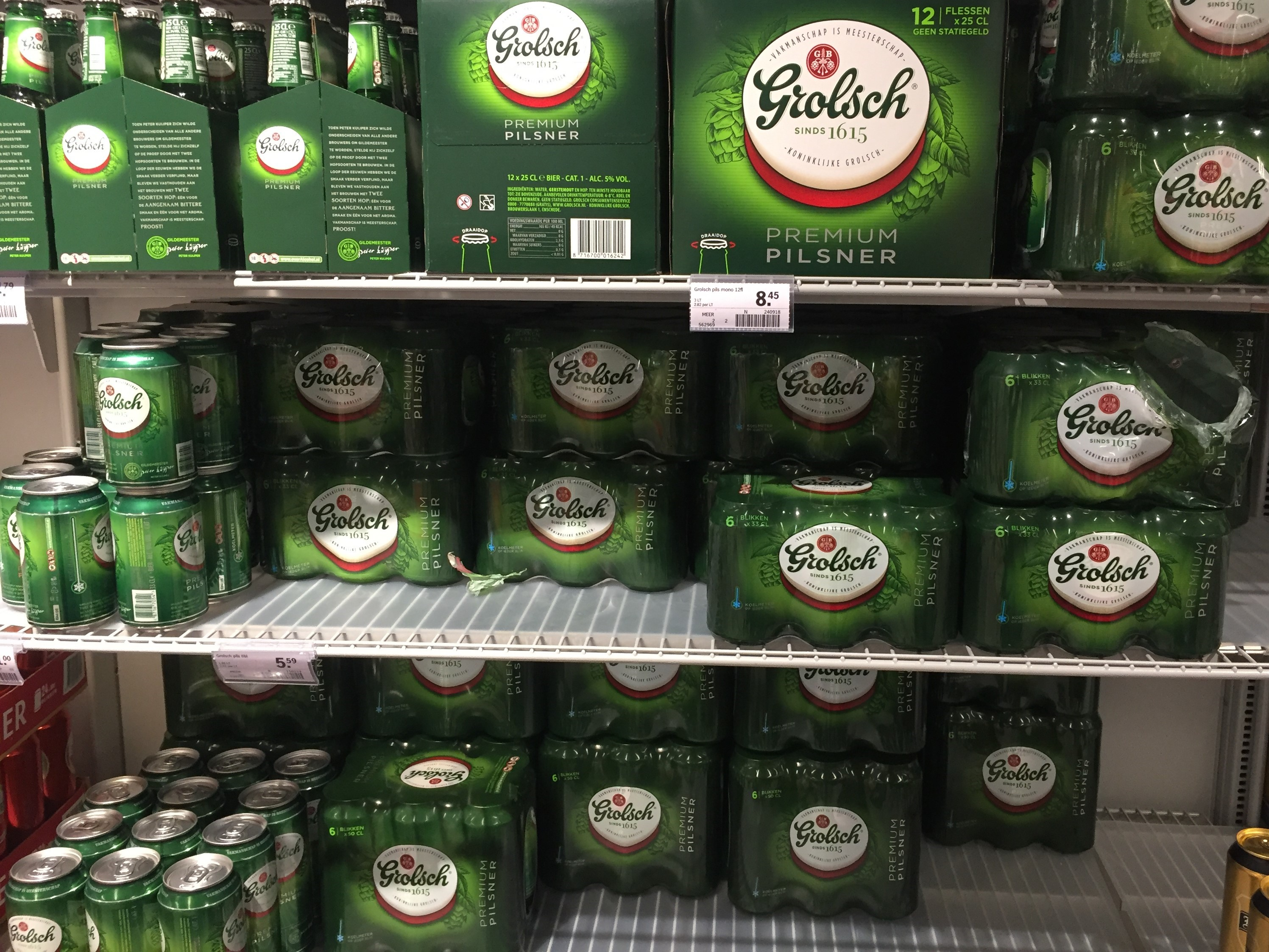 Grolsch beer in hyper market in Netherlands